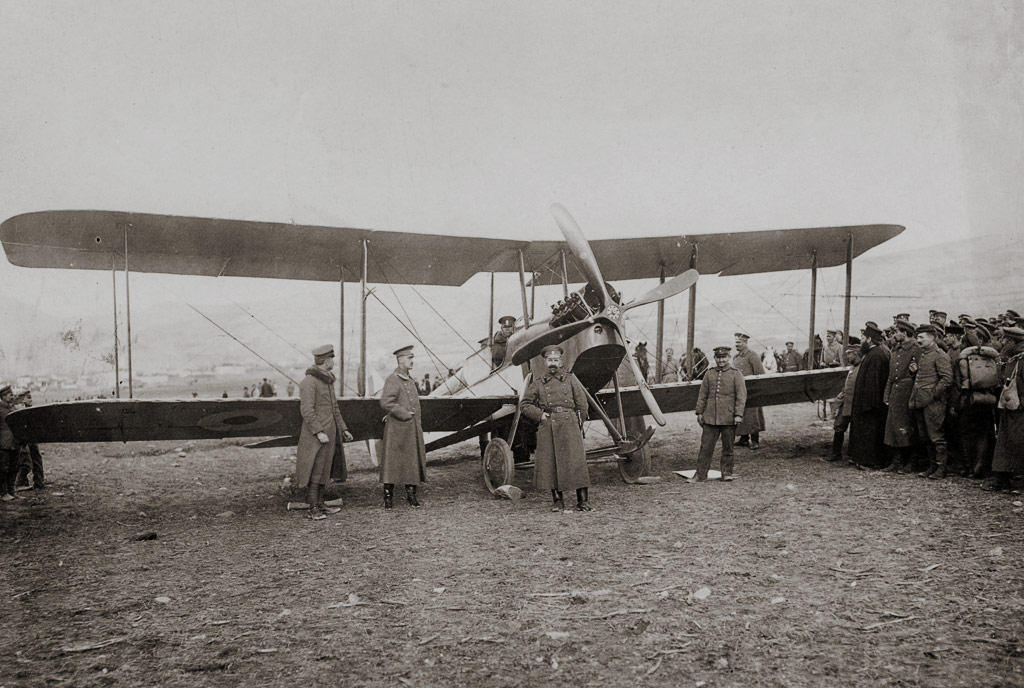 Captured english plane Armstrong-Whitworth FK3, Nr. 6219 landed by mistake on Bulgarian territory. February 1917